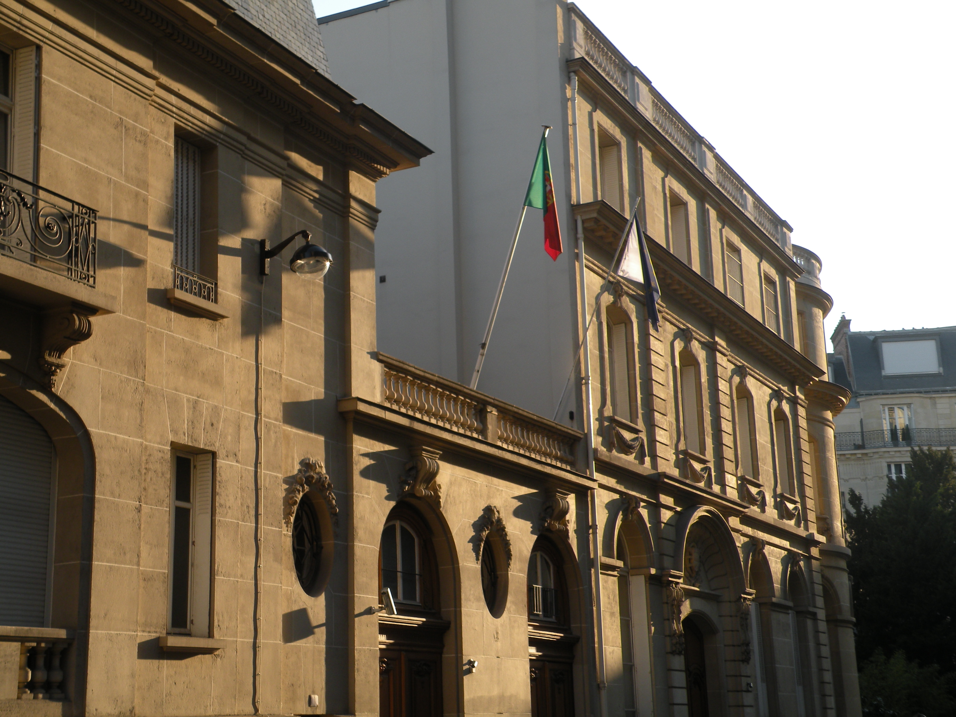 Portuguese embassy in France, Paris